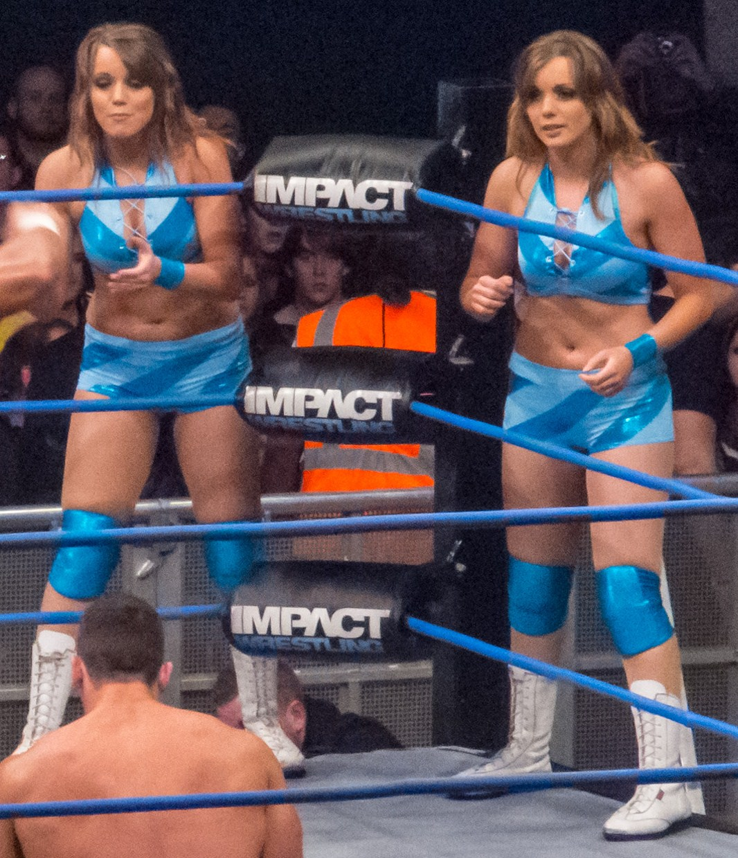 The Blossom Twins at the Impact! TV Tapings in Wembley, England on January 26, 2013.